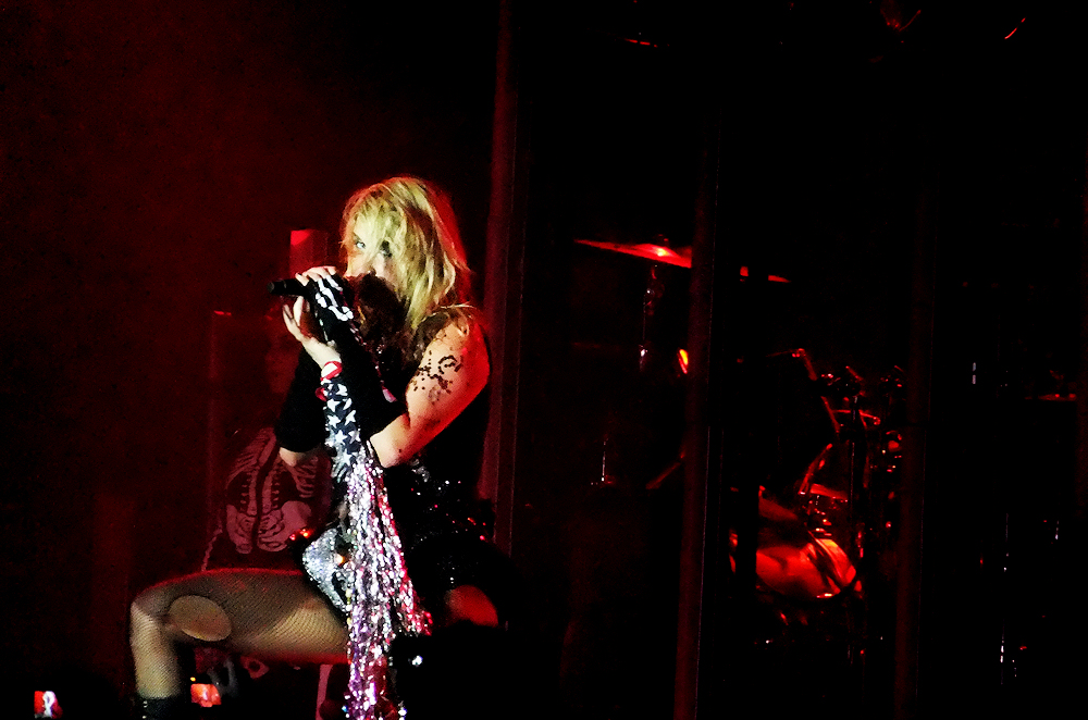 Kesha performing at Kool Haus in Toronto, Ontario.